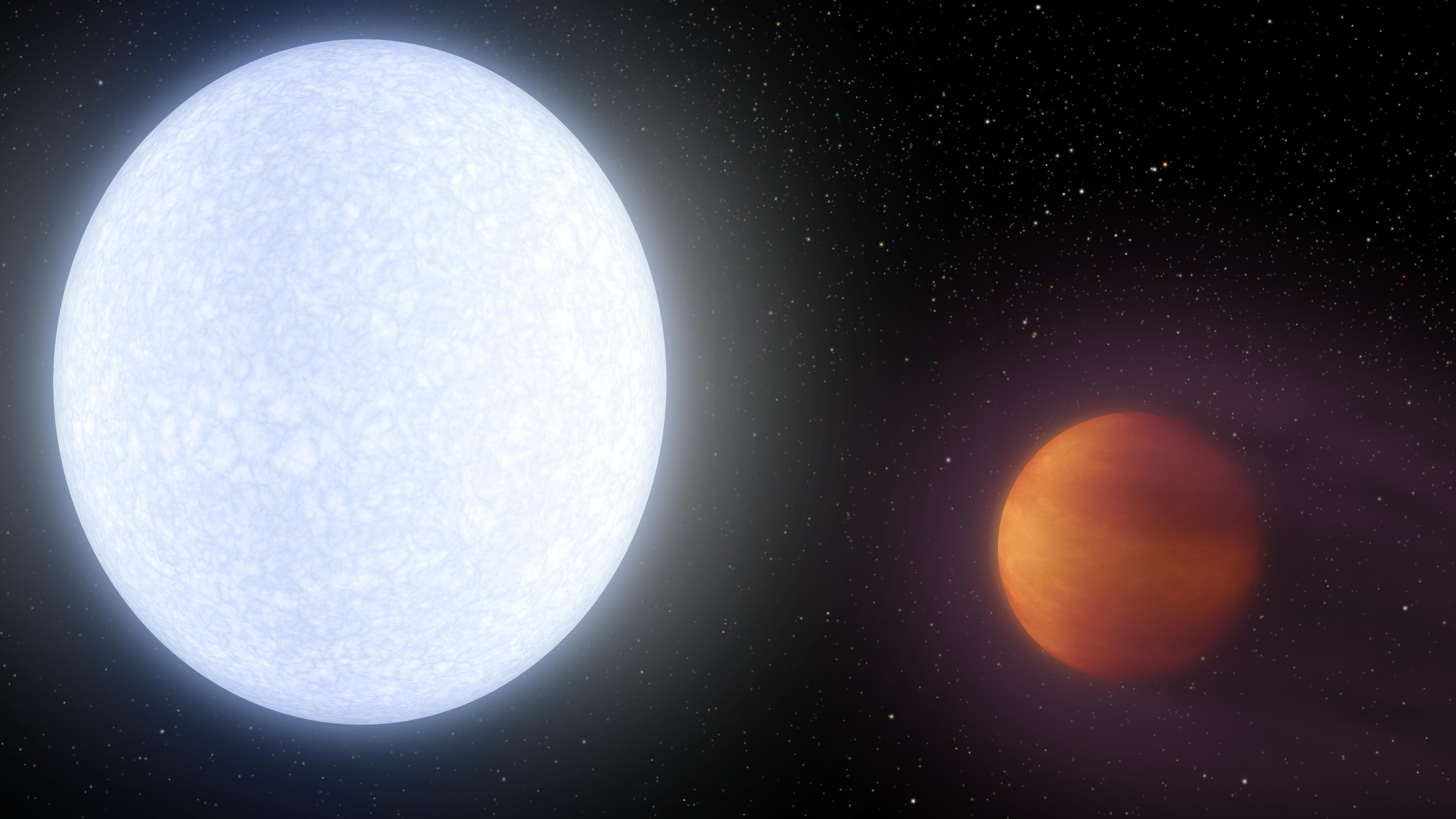 Artist's impression of exoplanet KELT-9b orbiting its host star, KELT-9